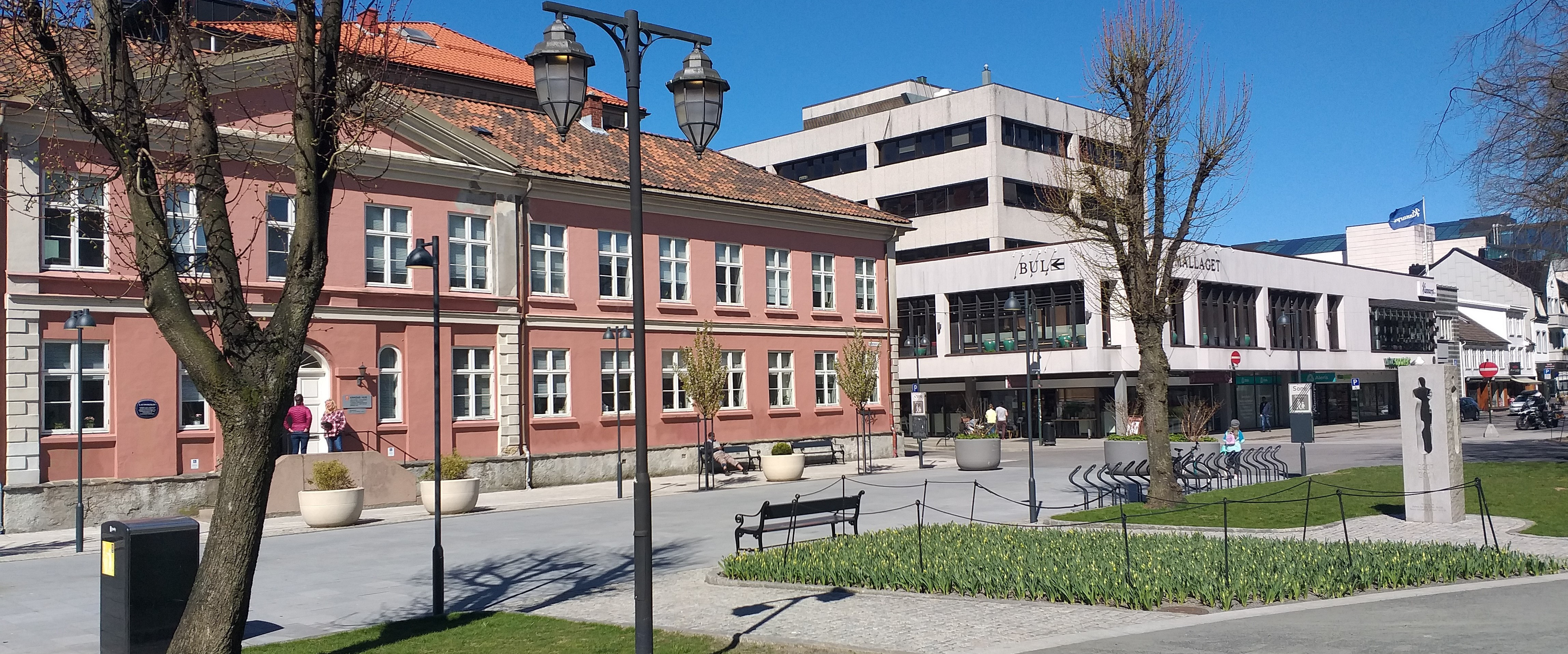 Memorial (right) in Kristiansand, Norway for the Terror Attack at July 22, 2011